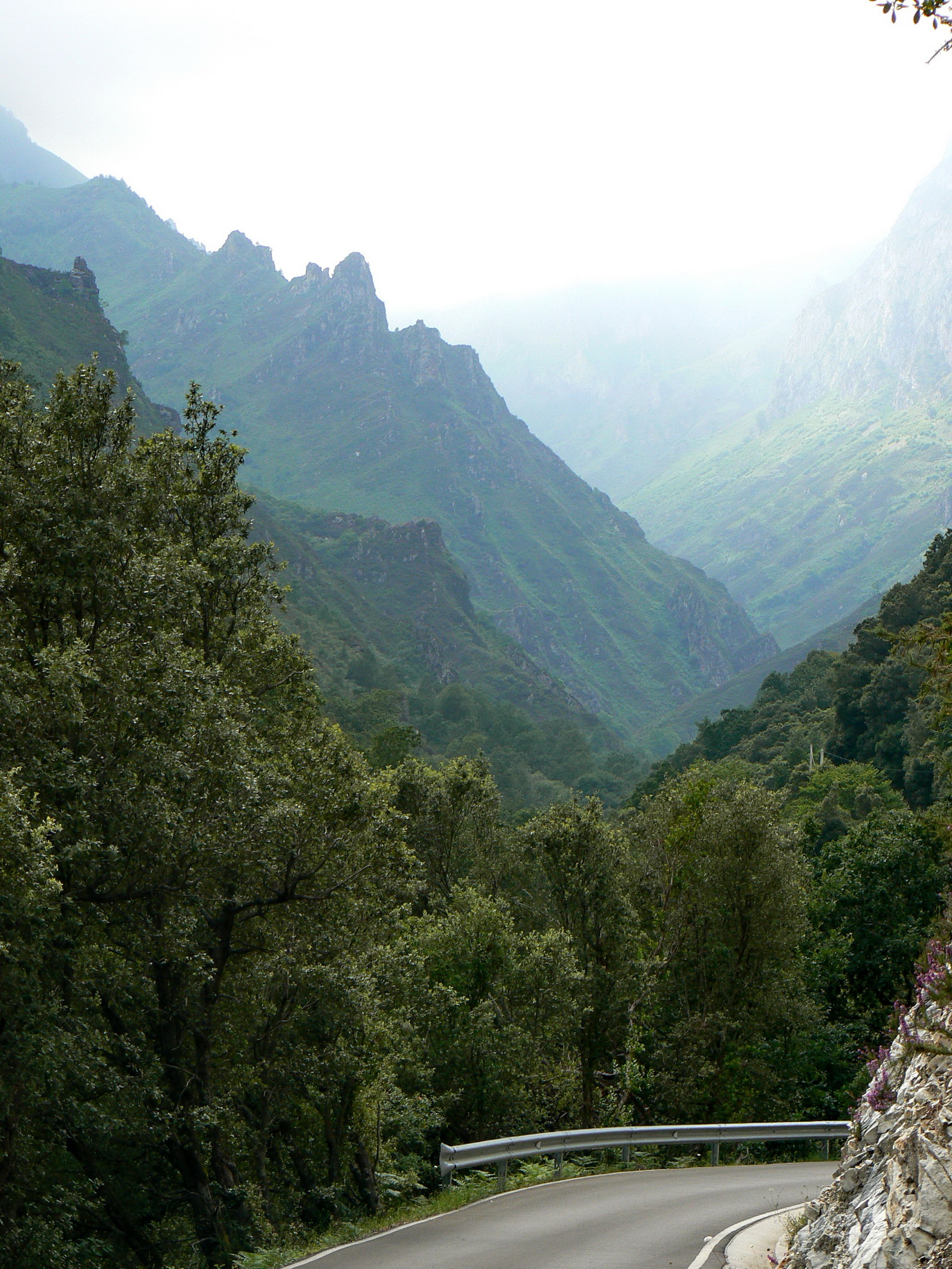 Desfiladero de la Hermida, Asturias, Spain